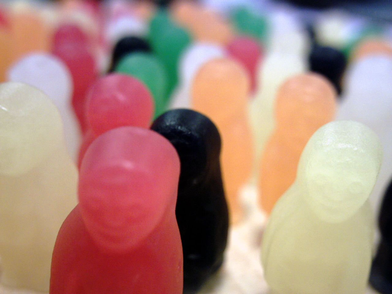 A group of jelly babies standing up